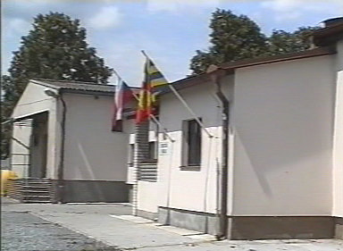 Kaceřov - municipal office